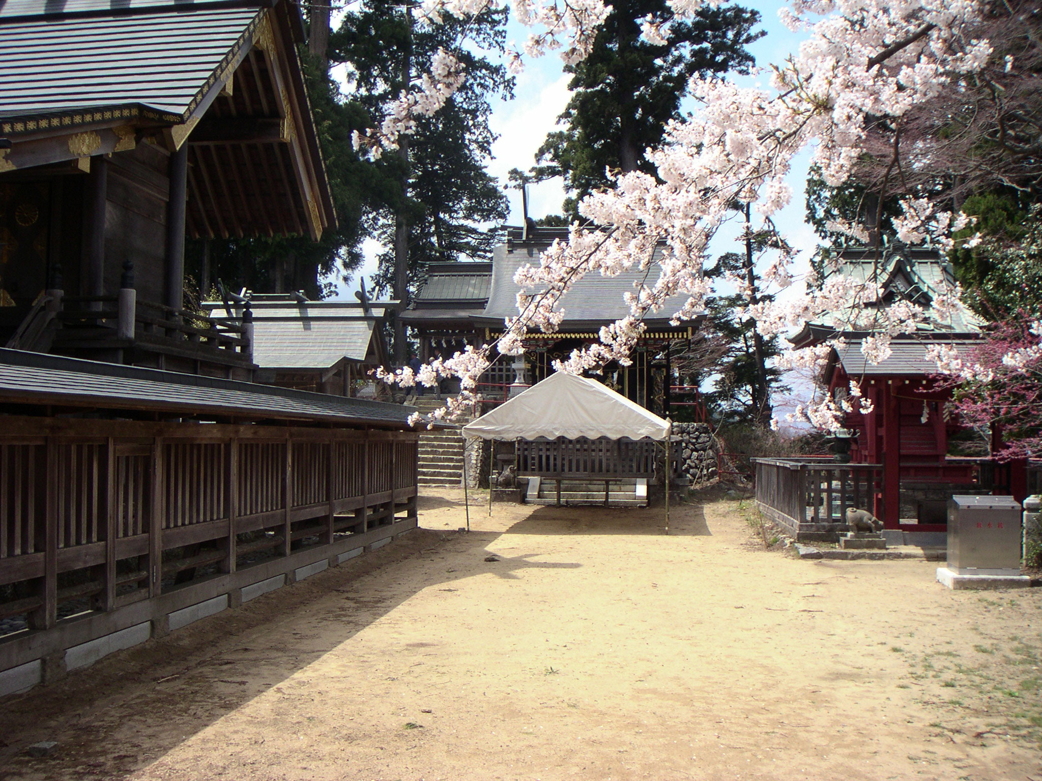 Mitake Shrine, Mt. Mitake, Ōme, Tokyo